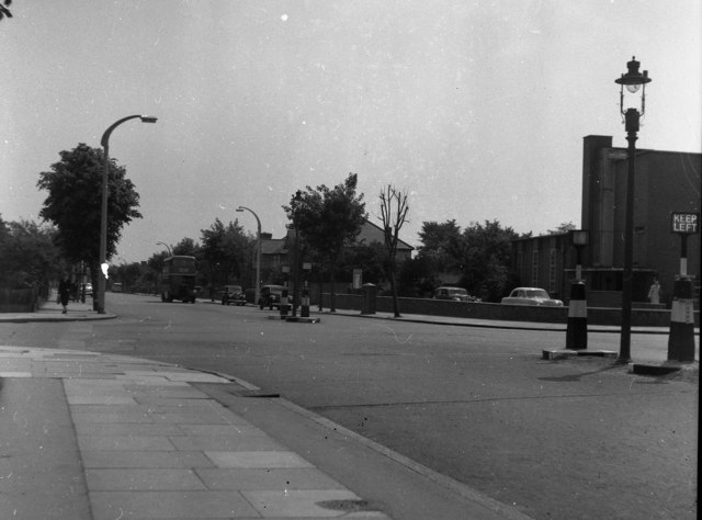 Kenton Library, Harrow, Middlesex. Looking southwards down Kenton Lane, with the Library on the right. The RLH-class bus is on route 230 from Northwick Park station to Rayners Lane, but there's very little other traffic in this 1955 view.